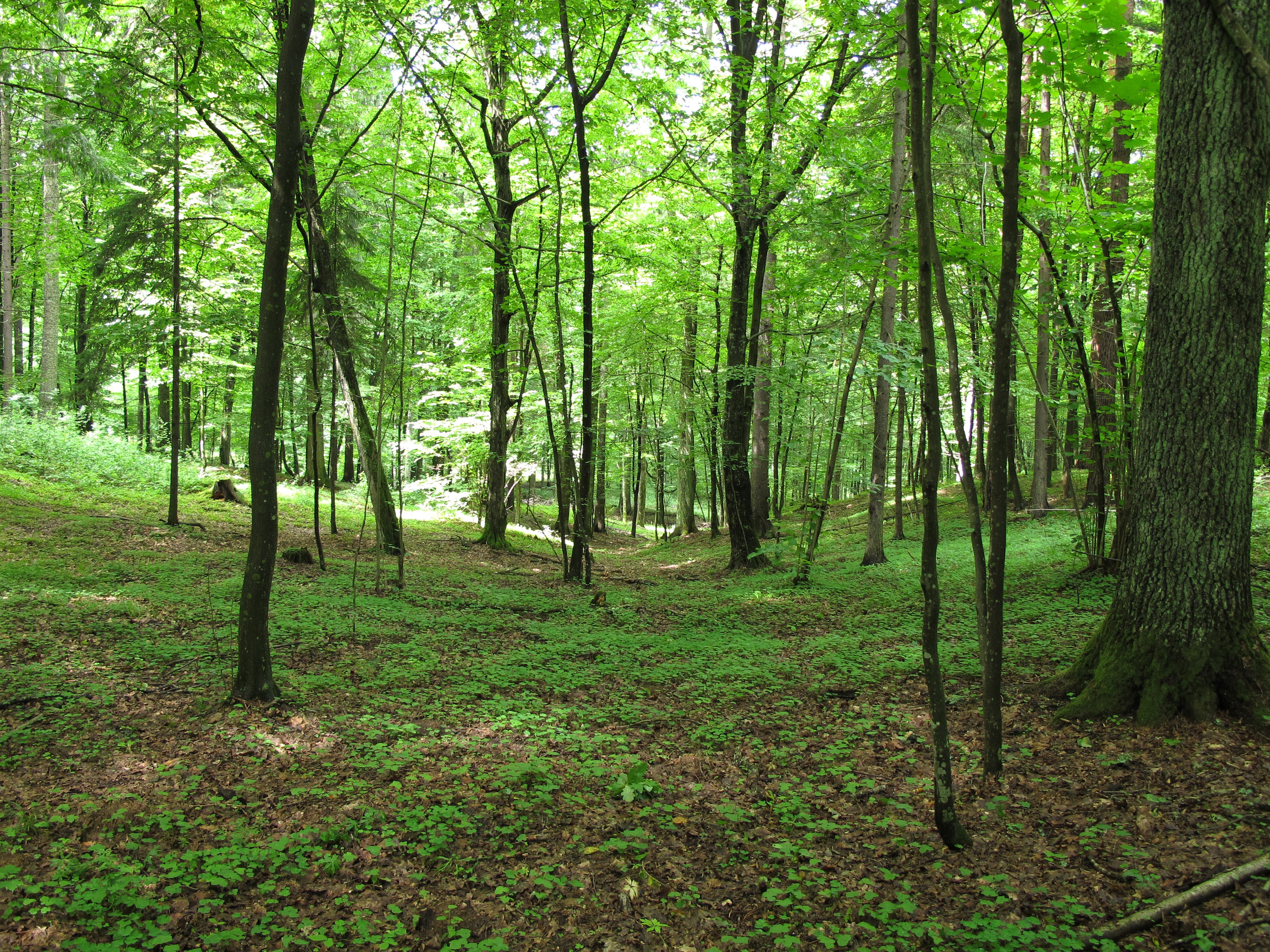 „Góry Czumażowskie” hills (gmina Czarna Białostocka, podlaskie, Poland) in Knyszyn Forest near the Ożynnik hamlet (gmina Wasików)